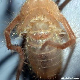 Image showing malleoli or chemoreceptors on last pair of legs of solfugid